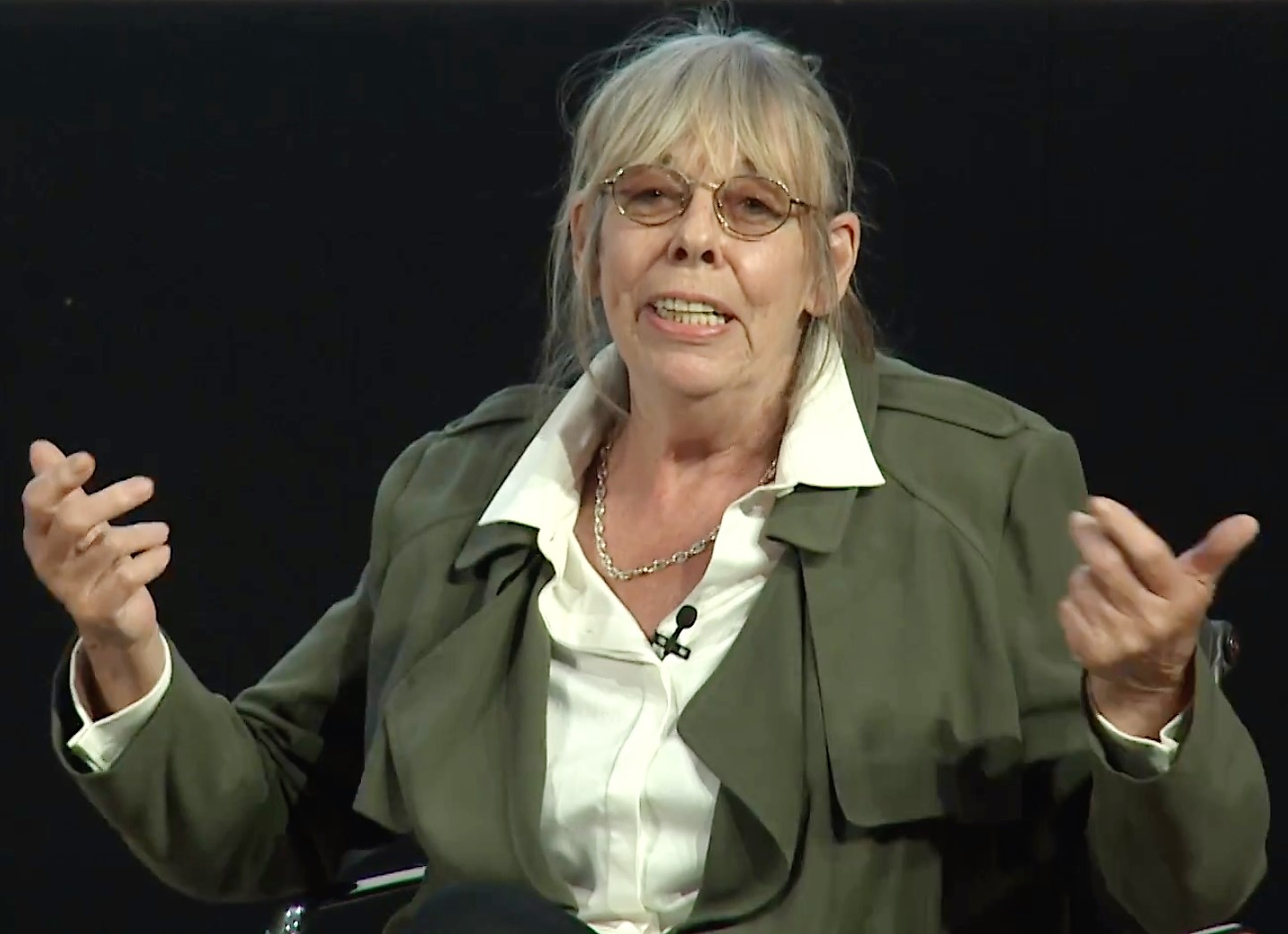 Peter Brook and associates: A Midsummer Night’s Dream Peter Brook is joined on stage at the British Library by original cast members Sir Ben Kingsley and Frances de la Tour and Shakespeare scholar Peter Holland to discuss his radical staging of 'A Midsummer Night’s Dream' at the RSC in 1970.